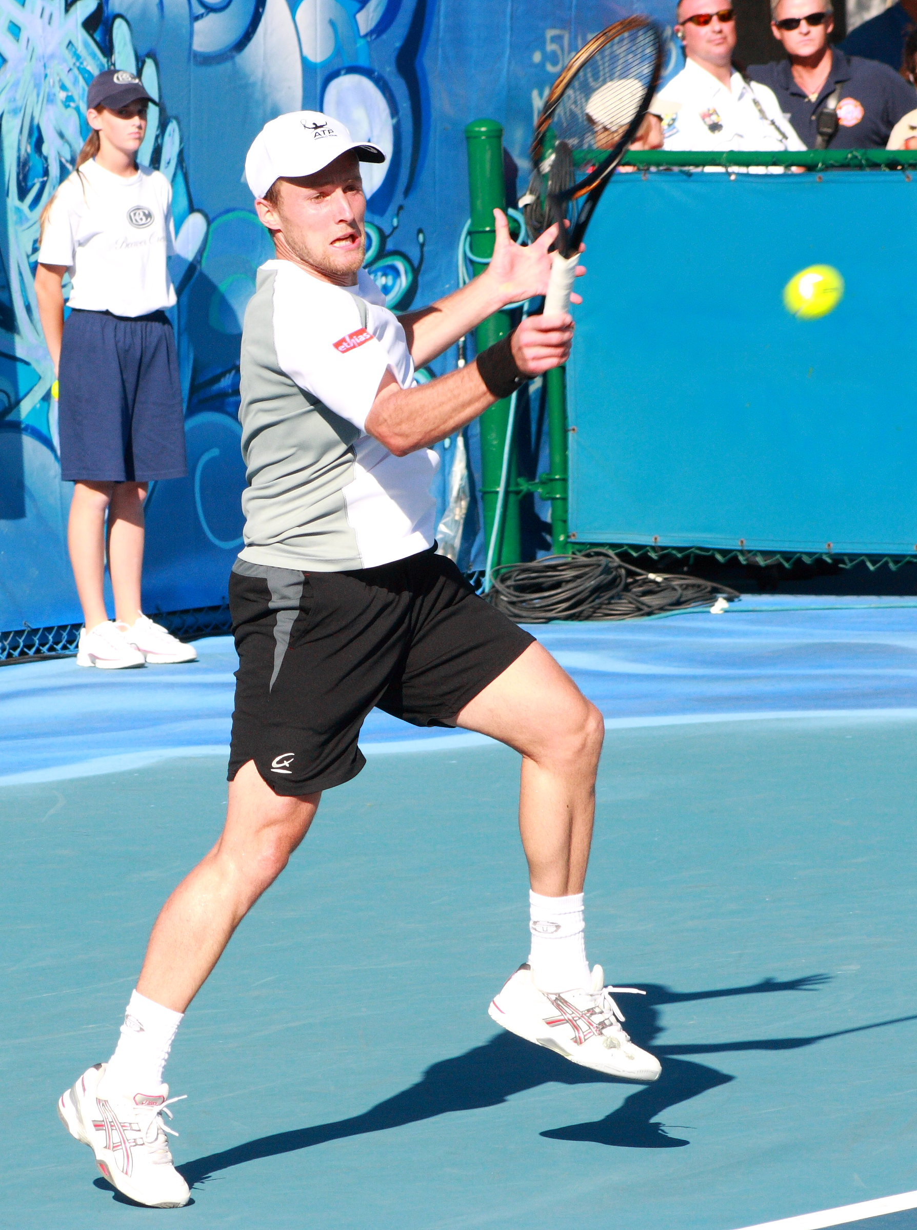 Christophe Rochus at 2009 Delray Beach International Tennis Championships, Delray Beach, Florida, United States